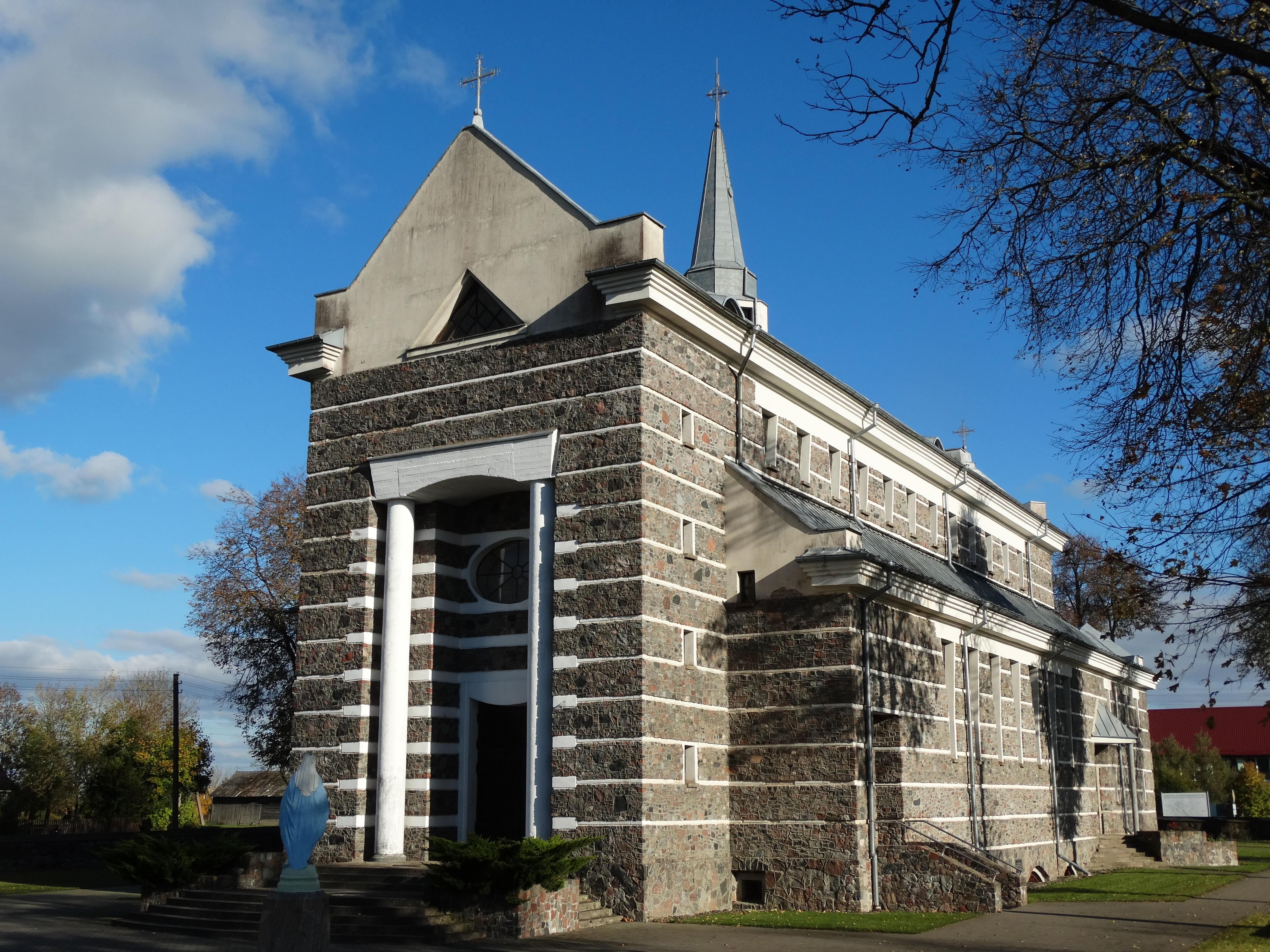 Holy Trinity Church, Nemakščiai, Raseiniai District, Lithuania